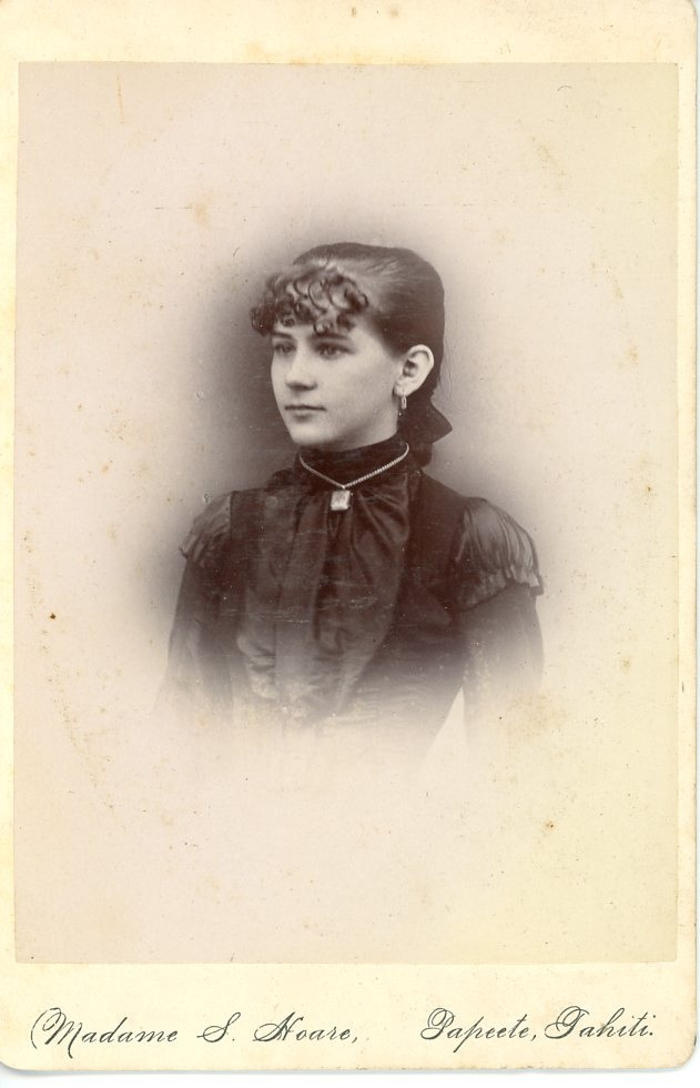 Tahiti, Papeete Madame S. Hoare Vintage, Carte cabinet Tirage albuminé 11x1.